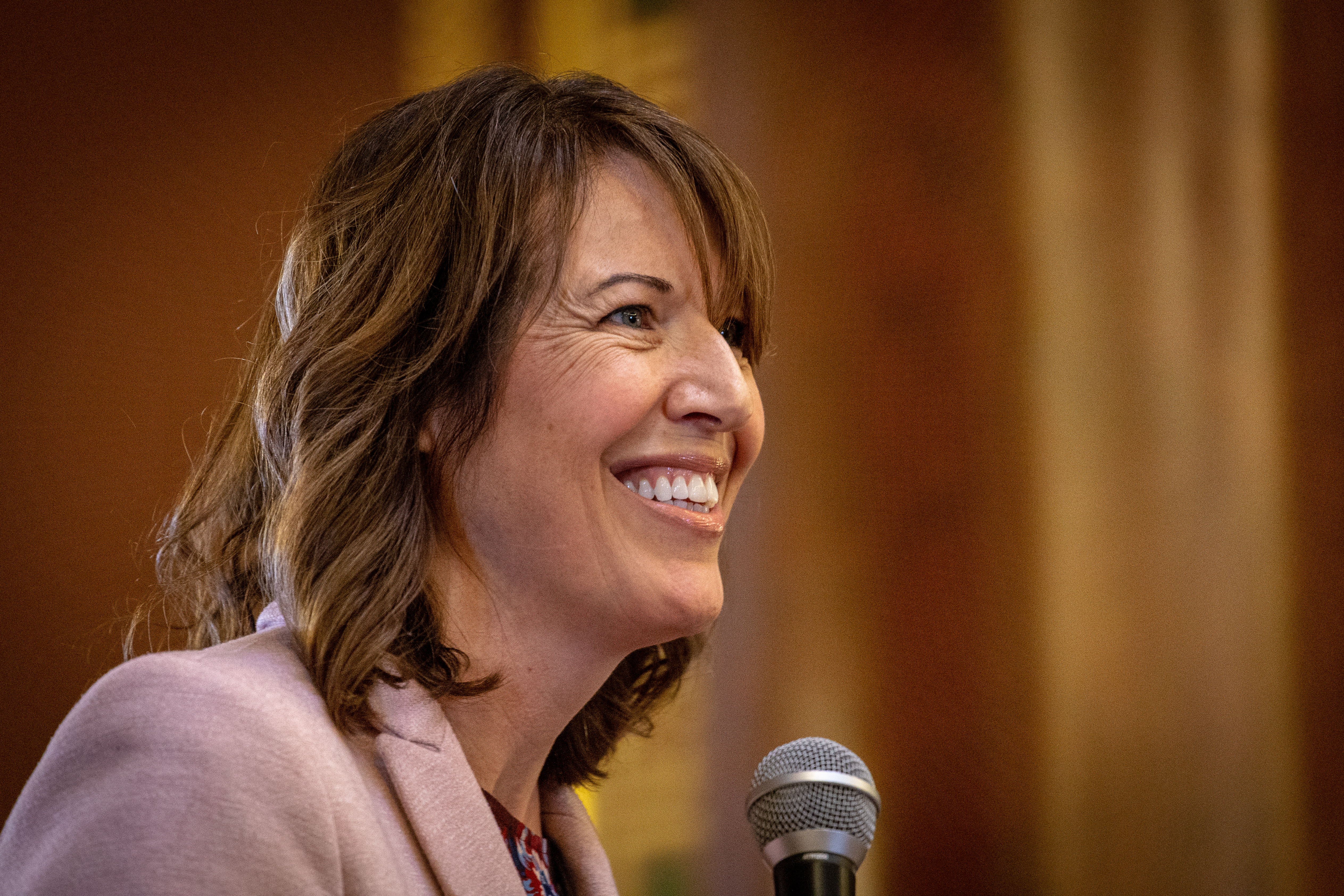 Congresswoman Cindy Axne speaks to Women's March attendees in the rotunda of the Iowa State Capitol. Photos from the third annual Women's March Iowa. Move inside the rotunda of the Iowa State Capitol due to snow and cold, the event included remarks by U.S. Senator and Presidential candidate Kirsten Gilligrand (D-NY) and newly-elected member of Congress Cindy Axne.